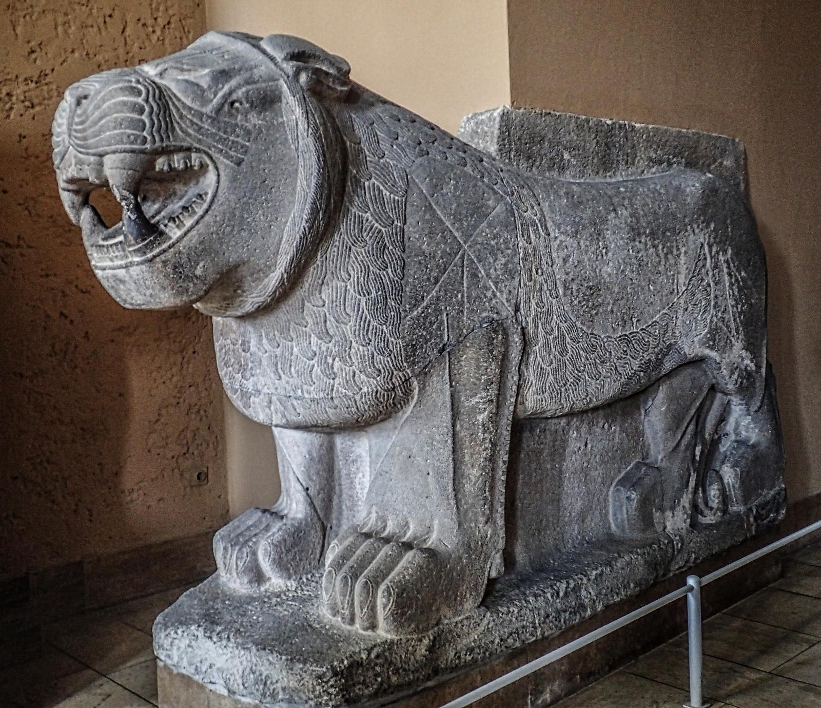 Photographed at the Pergamon Museum in Berlin, Germany.